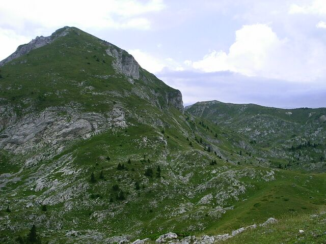 Prokletije Mountains in Albania and Montenegro